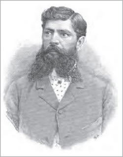 Dragutin J. Ilić (1858-1926), Serbian writer and politician. (Drawing from late 19th century)